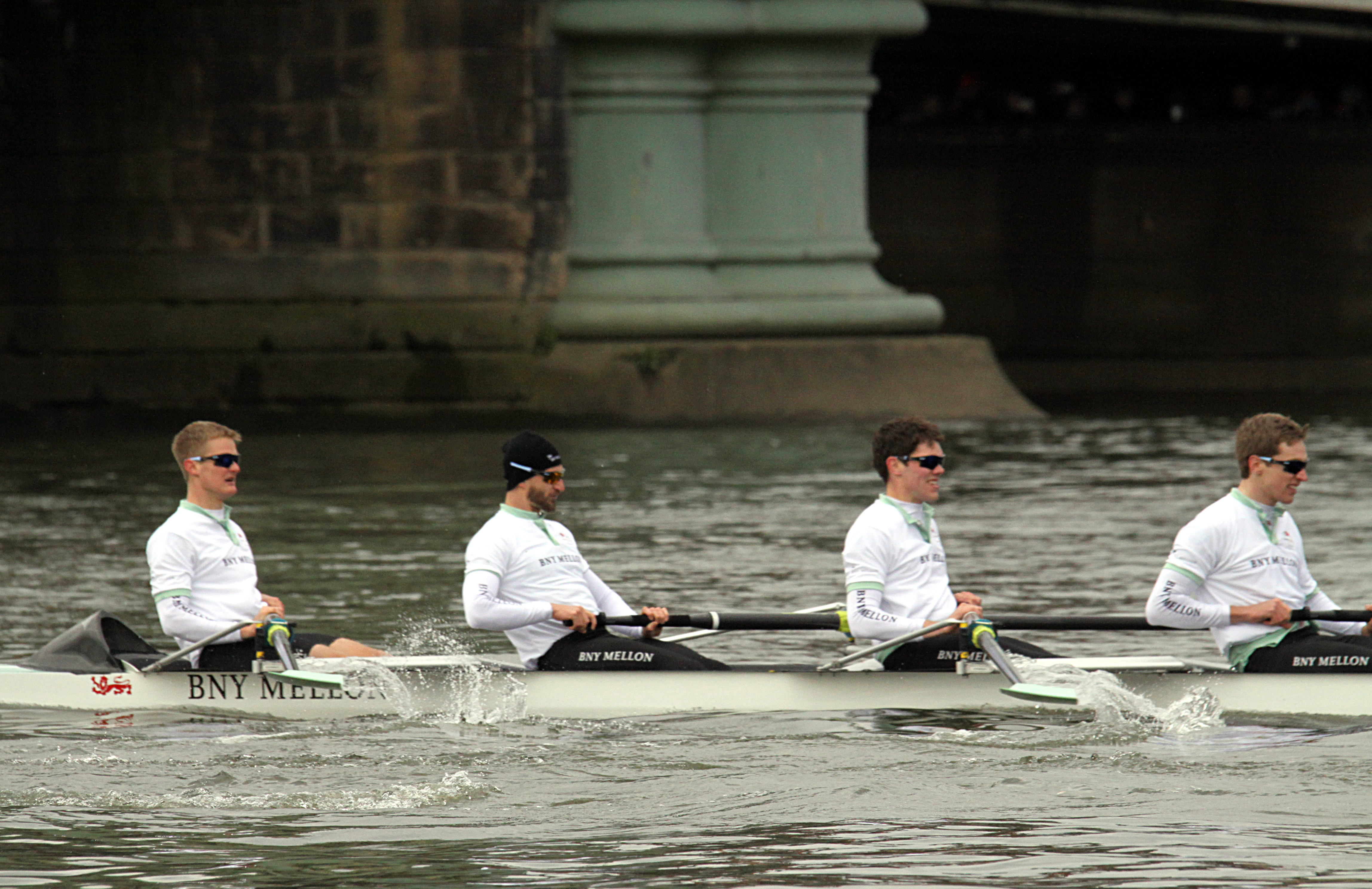 Crew of Cambridge (white dresses) during the Boat Race on River Thames, England, Great Britain. From left to right: Grant Wilson, Milan Bruncvík, Alexander Fleming, Ty Otto.